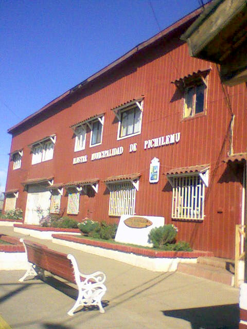 Municipality of Pichilemu building.